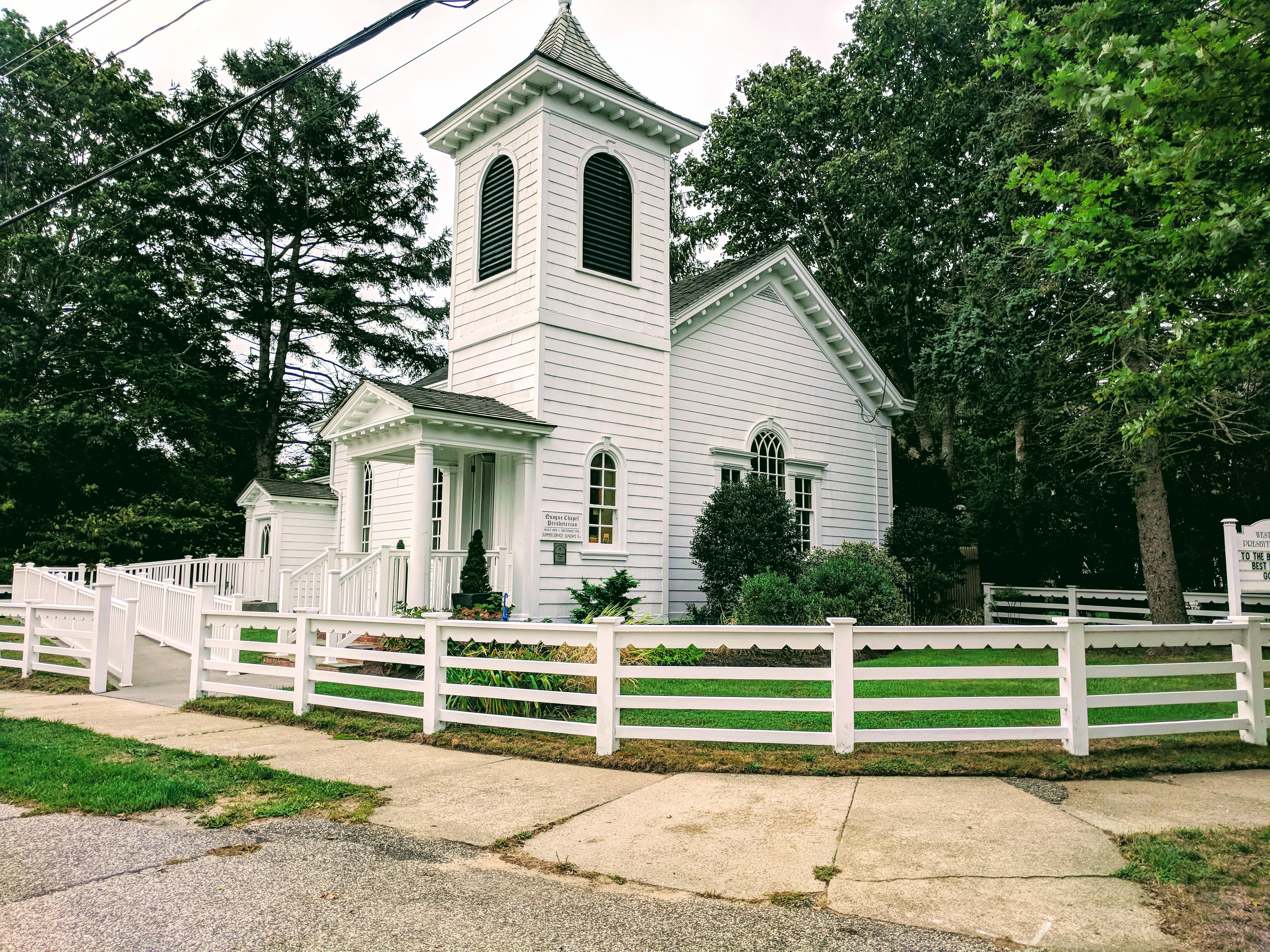 Quogue Historic district